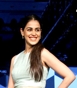 Genelia D'Souza walking the ramp for Neeta Lulla at the Lakme Fashion Week 2015.